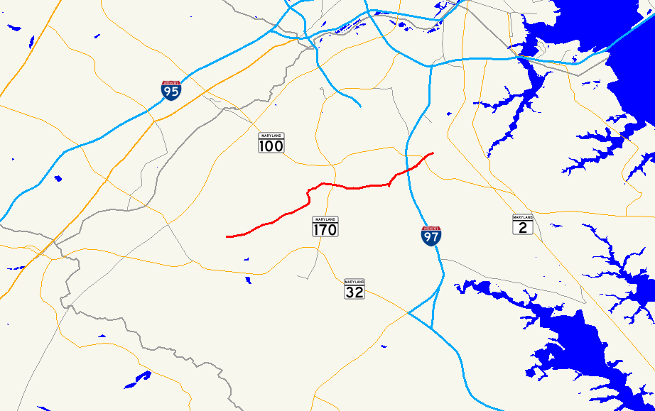 Map of Maryland Route 174